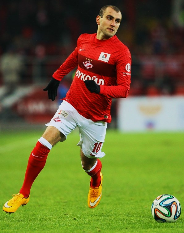 Yura Movsisyan